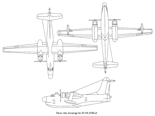 Three view drawing of a Martin SP-5B Marlin.